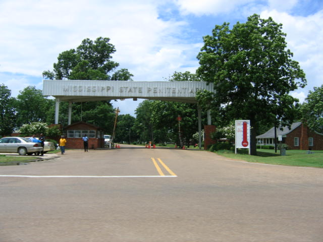 Entrance to the Mississippi State Penitentiary